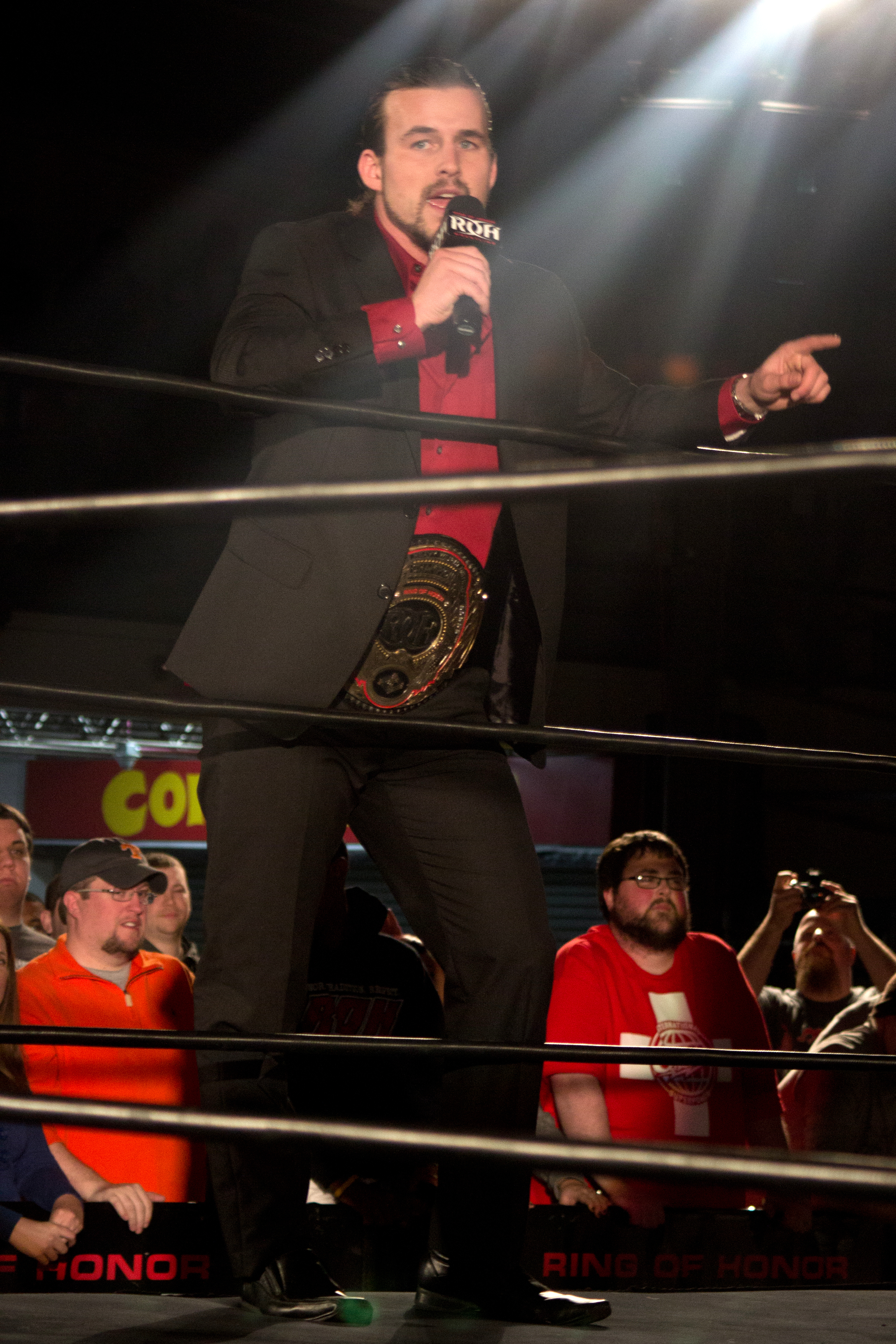 ROH World Champion Adam Cole at the ROH television tapings in Nashville in January 2014. Cropped from original and auto-contrast applied.